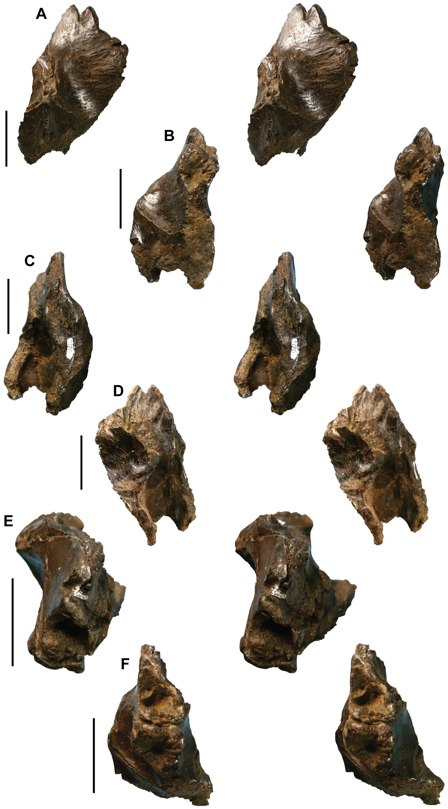 Nanuqsaurus hoglundi, holotype, DMNH 21461, partial skull roof piece. Stereophotographs of partial skull roof in dorsal (A); right lateral (B); left lateral (C); ventral (D); rostral (E); and rostrolateral (F) views. Rostral to top in images A through E. Scale bars equal 5 cm.